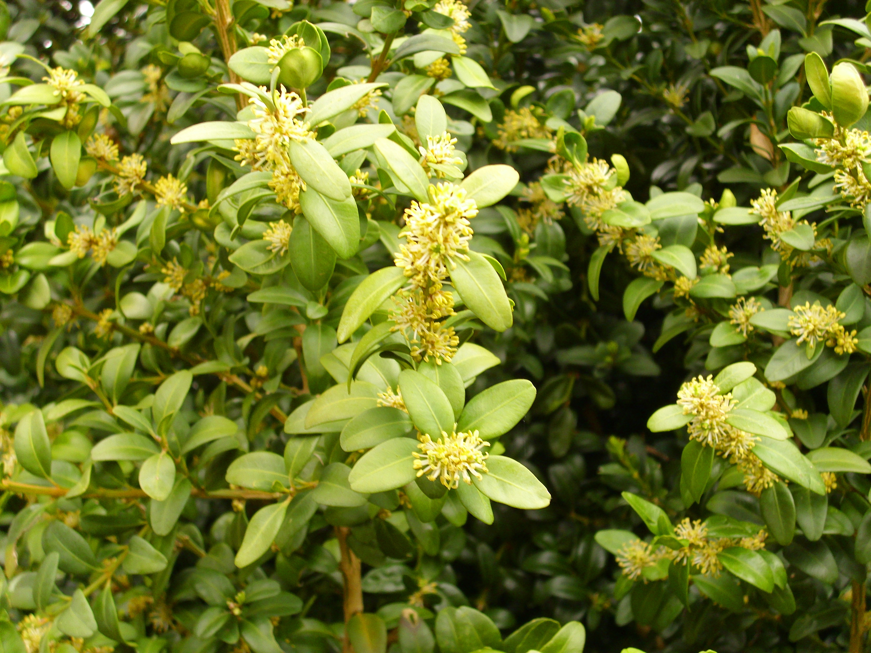 Río Salazar, 'Buxus sempervirens' This is a photography of a Special Area of Conservation in Spain with the ID: ES2200012. Natura2000 entry, EEA entry